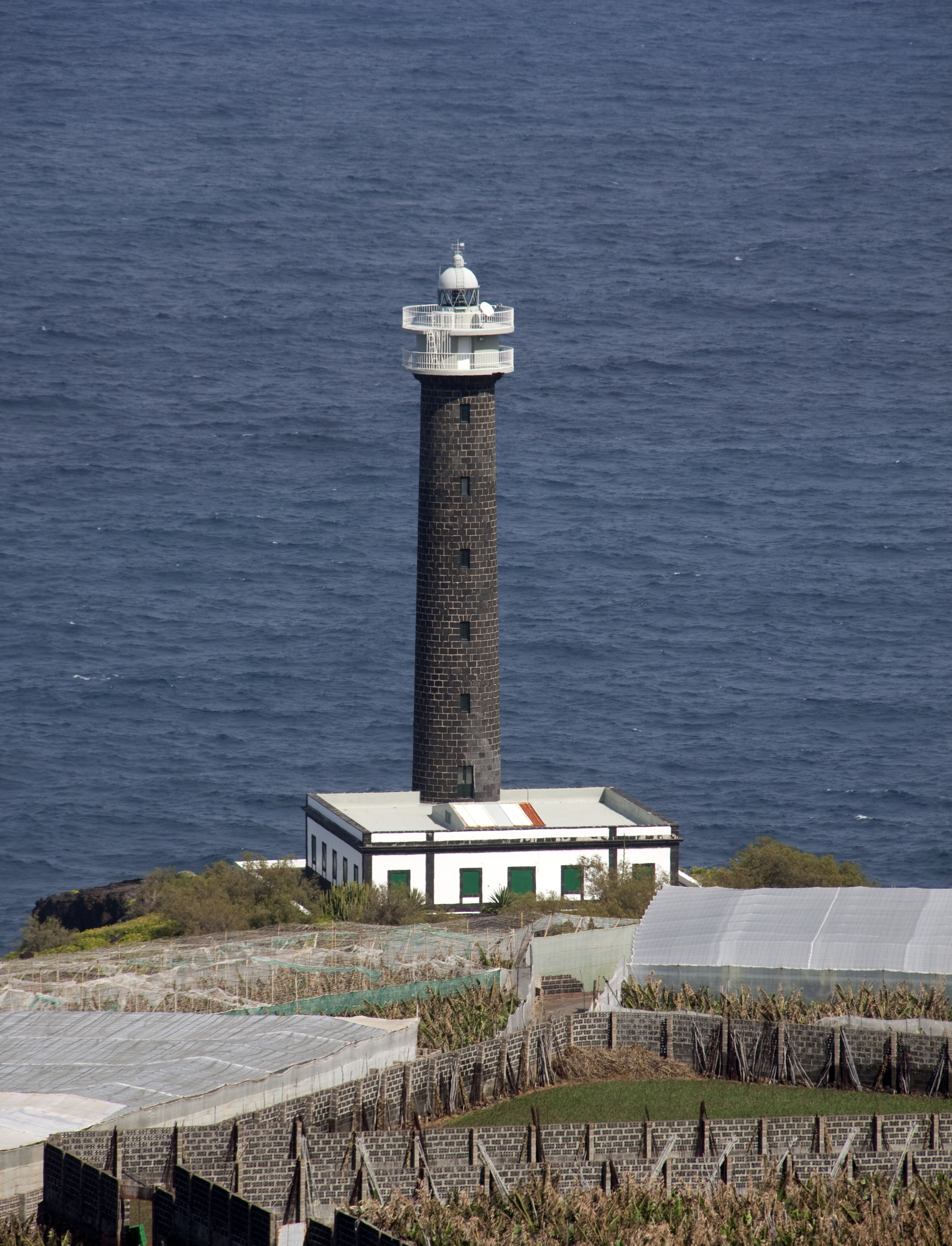 Punta Cumplida Lighthouse. Barlovento. La Palma island. Canary Islands. Spain.